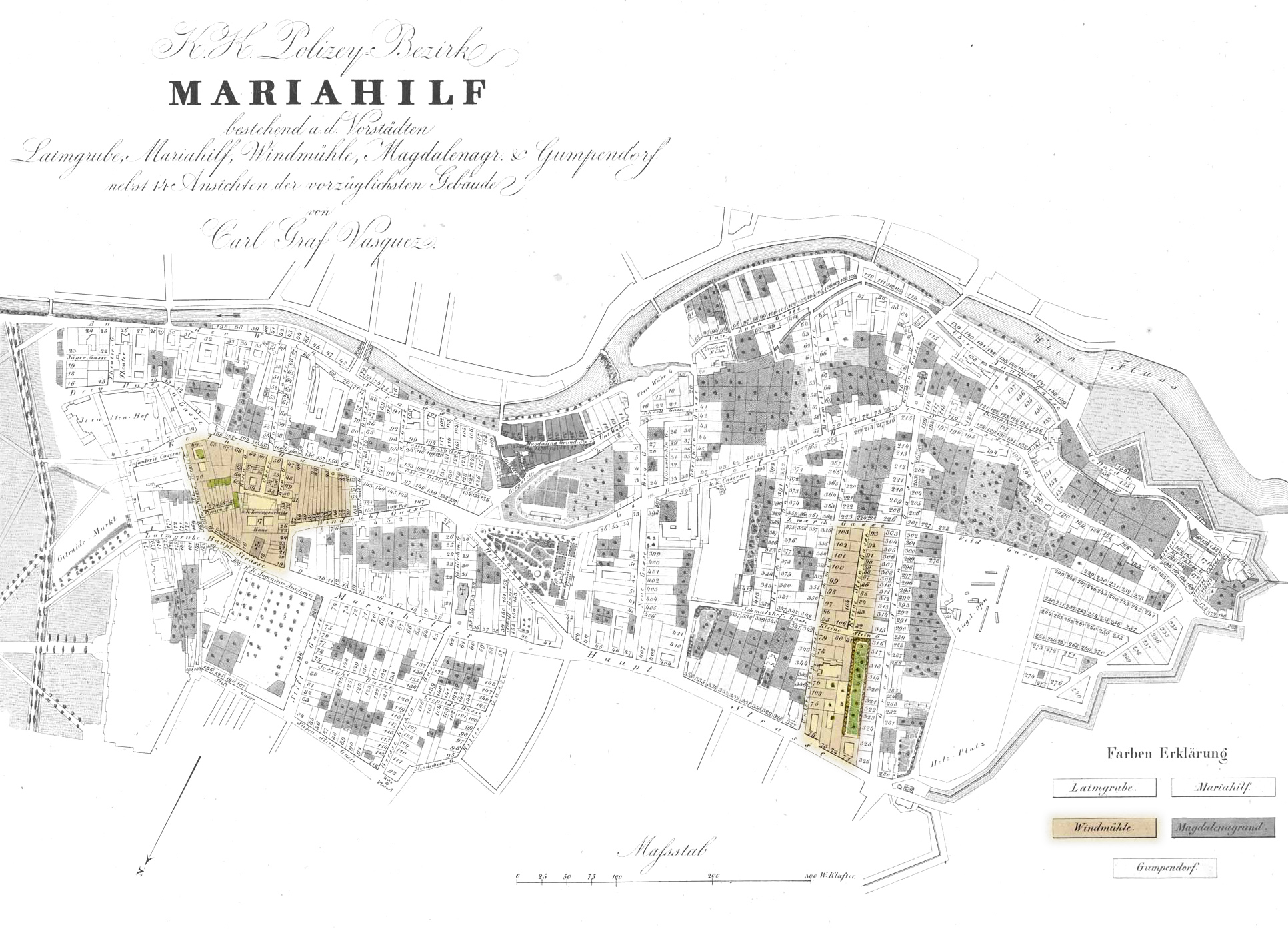 Map of Vienna / Windmühle, approx. 1830